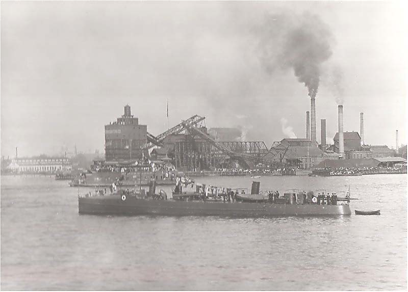 Photo #: NH 66926. Off Kaign Avenue, Camden, NJ, 1908.